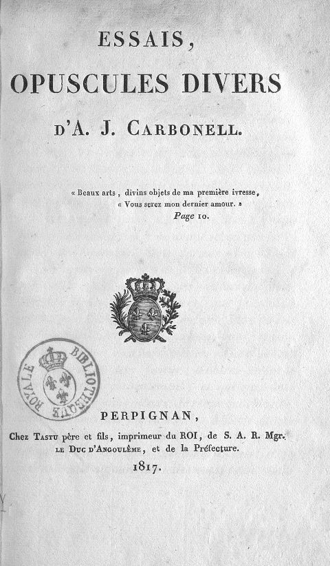 Book cover of Essais, opuscules divers by A.J.Carbonell (Perpignan:Tastu, père et fils, 1817)